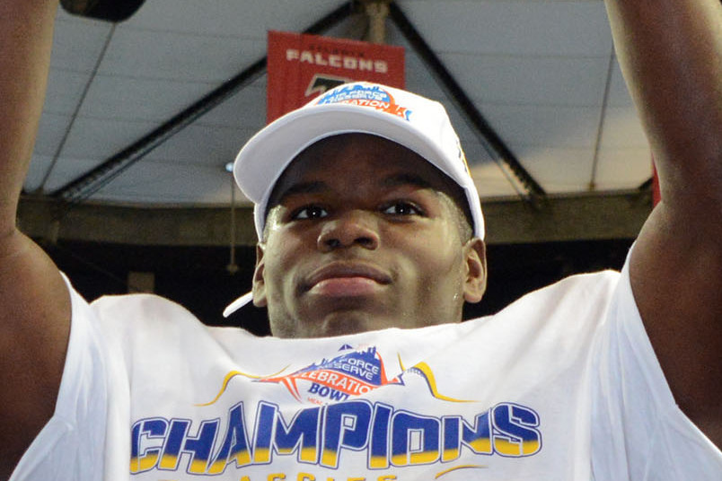 Tarik Cohen being presented with the 2015 Celebration Bowl Offensive MVP Award